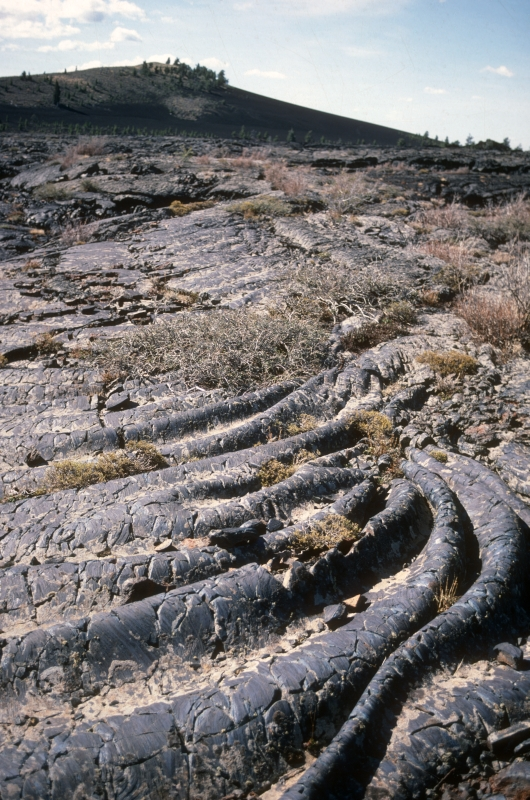 Lava Billows - in: Craters of the Moon National Monument and Preserve, Idaho, USA